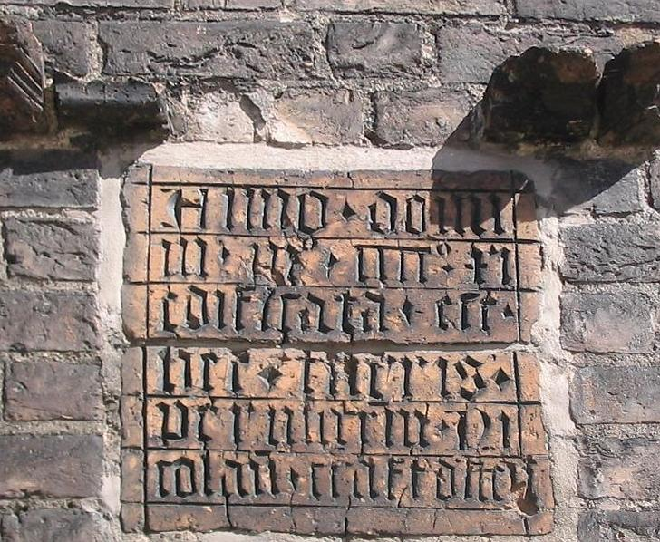 Inscription at the Neustädtischer Mühlentorturm, built in 1411, one of the four still existing of the formerly nine gate towers in Brandenburg an der Havel, state Brandenburg, Germany. Text: Anno domini 1411 edificata est haec turris per magistrum Nicolaum craft de stettin.